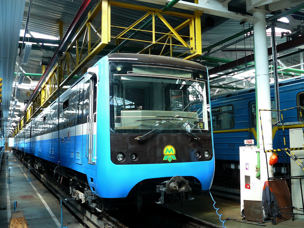 A new generation Kiev metro train